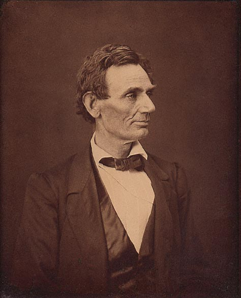 Abraham Lincoln, after his nomination for President. Ostendorf# O-26; Meserve# M-26